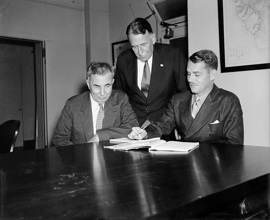 U.S. Territory Governors meet in Capitol. Washington, D.C., Aug. 13. Governors of three of Uncle Sam's territories were in Washington today to meet with Secretary of Interior Harold Ickes. They are, left to right: Joseph B. Poindexter, Governor of Hawaii; Governor Blanton Winship, Puerto Rico; and Governor Lawerence W. Cramer, Virgin Islands, 8/13/37